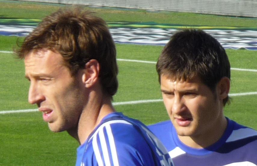 Rubén Pulido and Javier Paredes in 2009